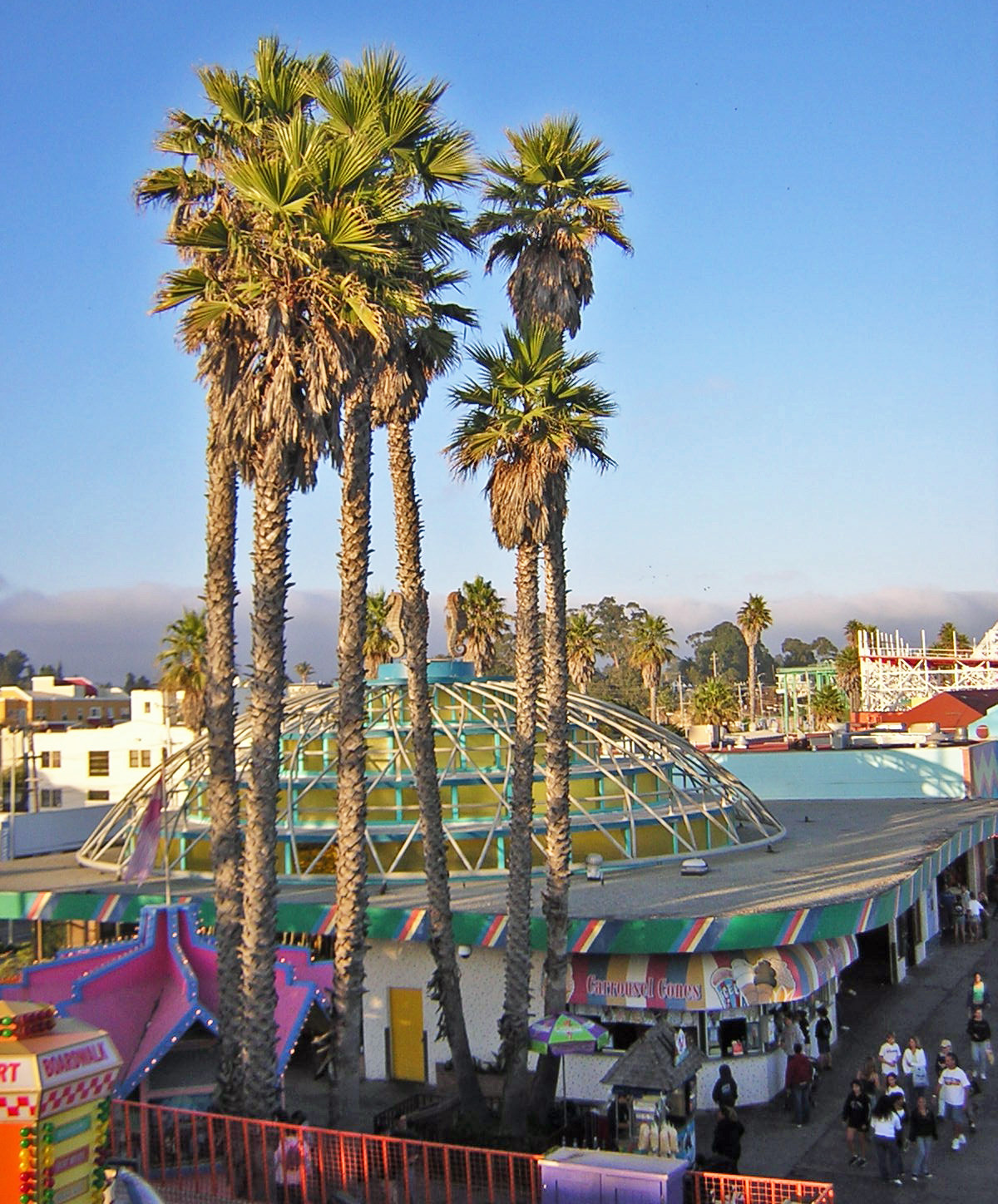 A scene from Santa Cruz Beach Boardwalk (SCBB), an amusement park located in Santa Cruz, California on the Pacific Ocean. SCBB is California’s oldest amusement park and a State Historic Landmark. It is the home to two National Historic Landmarks: the 1911 Looff Carousel and the 1924 Giant Dipper roller coaster. This image is of the roof of the carousel. The Giant Dipper trackage is visible in the distance.